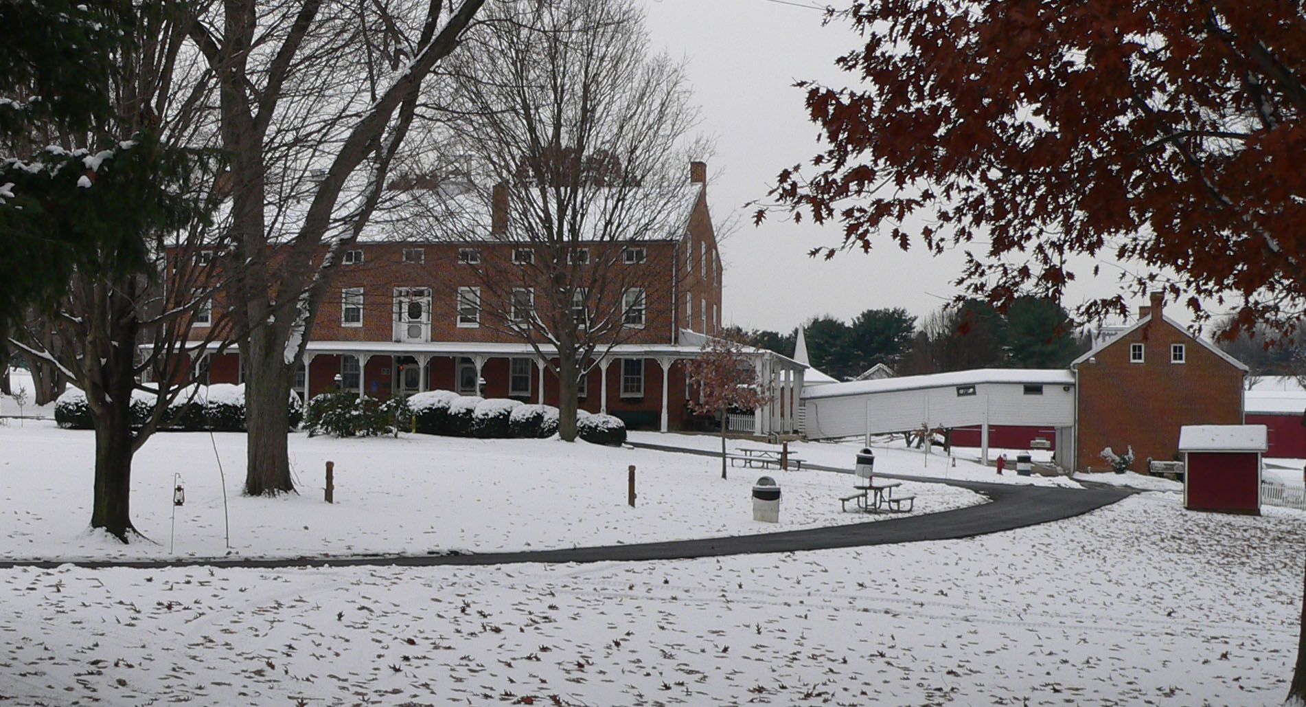 Carroll County Almshouse and Outbuildings. Main building lower floor used for dining and administrative, upper floors for women and children. Building to the right was used for sleeping quarters for men. Today, the main building lower floor is used as a farmhouse museum showing 6 rooms of an upper middle class home in the late 19th century. Building to the right houses craft demonstrations.